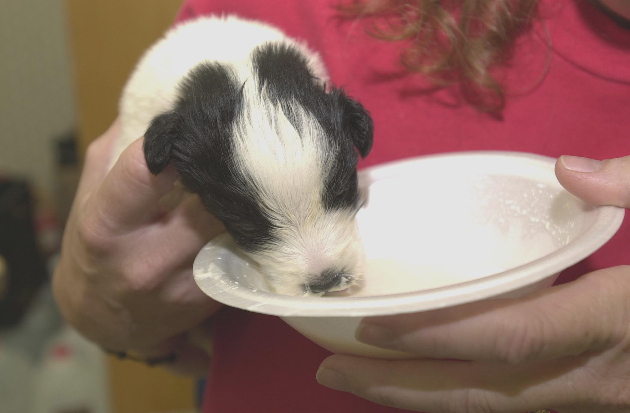 Wyoming County, WV, July 21, 2001 -- A four-week-old puppy, found alongside a road after flooding in West Virginia, is fed at an Emergency Animal Rescue Service shelter in the Twin Falls State Park. Photo by Leif Skoogfors/ FEMA News Photo